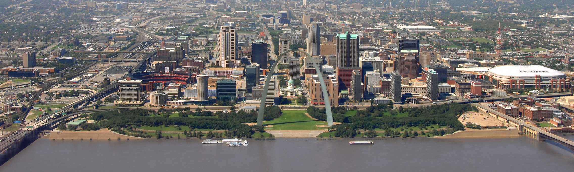 St. Louis, Missouri skyline in September 2008.